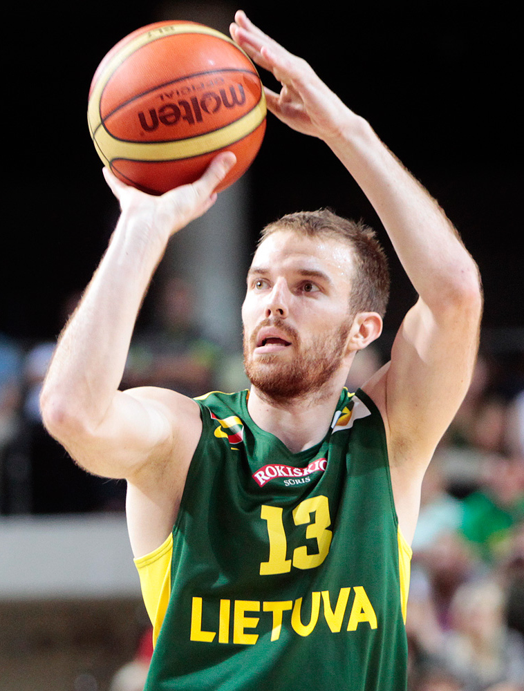 Lithuanian basketball player Martynas Gecevicius